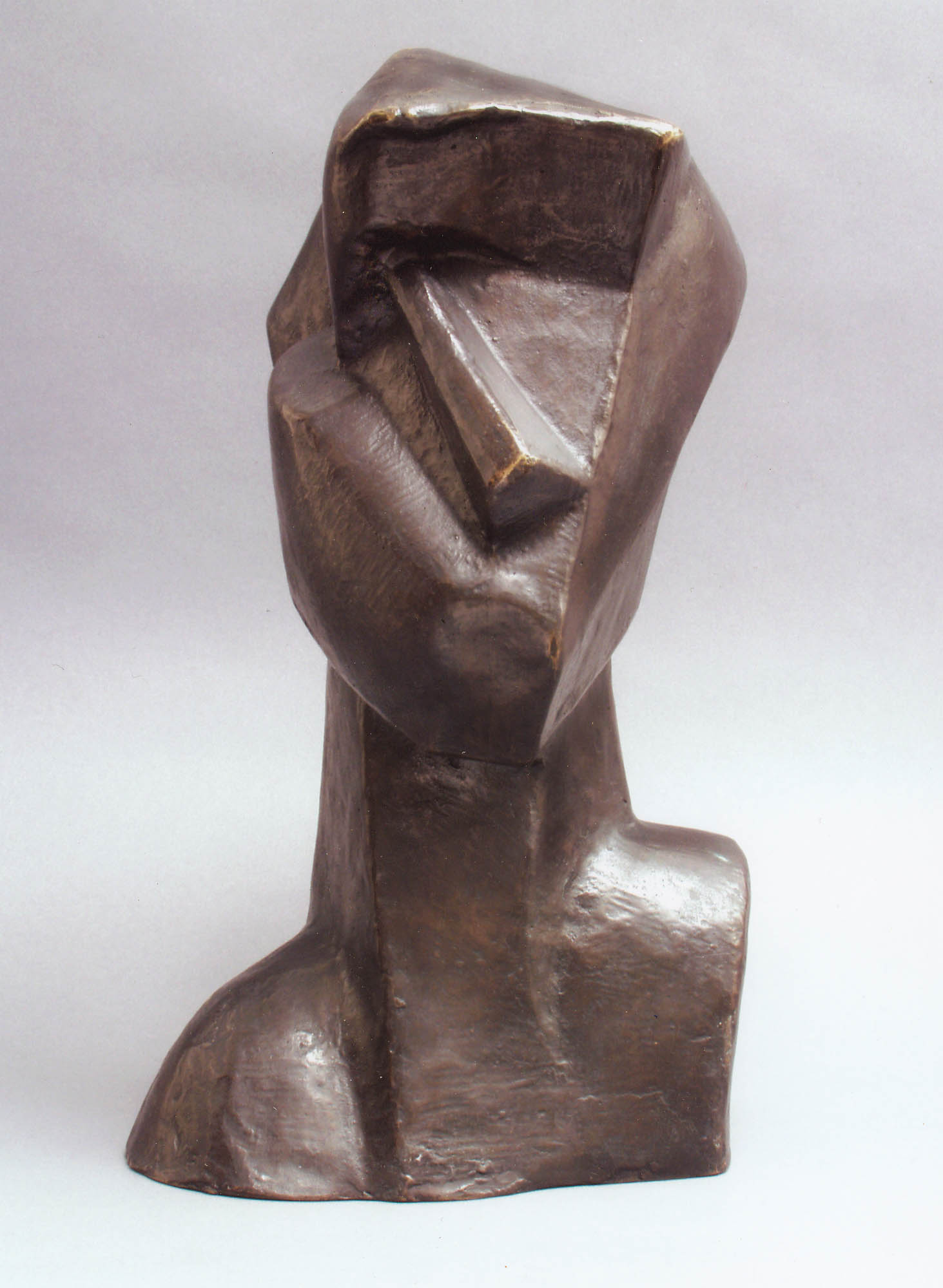 Joseph Csaky, Tete, 1914, bronze, H. 38.5 cm